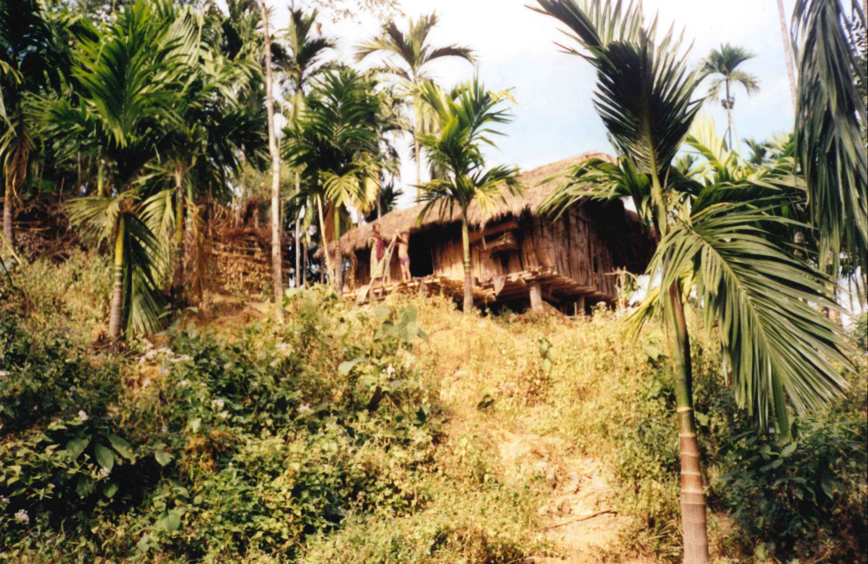 A traditional Toto house at Totopara